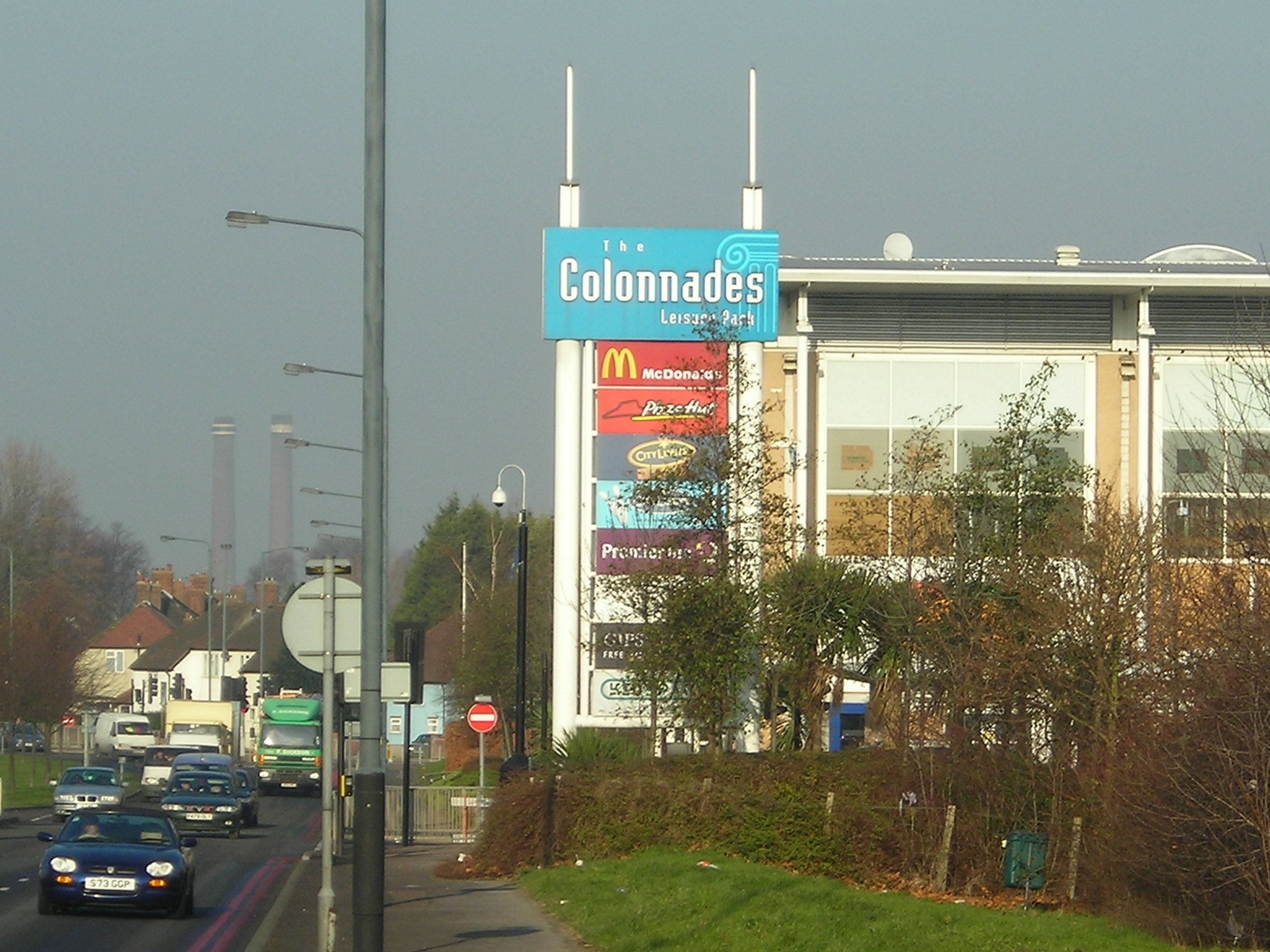 Photograph of the Croydon Colonades or The Colonades Leisure Park (formerly Croydon Water Palace) sign advertising the shops and outlets. IKEA Towers visable in the background.